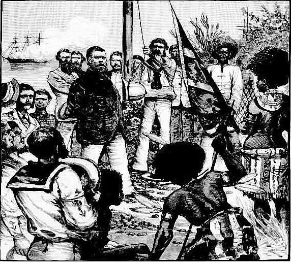 Tuesday, April 3, the Pearl, belonging to the Queensland Government, arrived at Port Moresby, with Mr. H. M. Chester, police magistrate from Thursday Island, on board. At 10 o'clock the next morning Mr. Chester formally annexed New Guinea, by reading a proclamation and hoisting the Union Jack